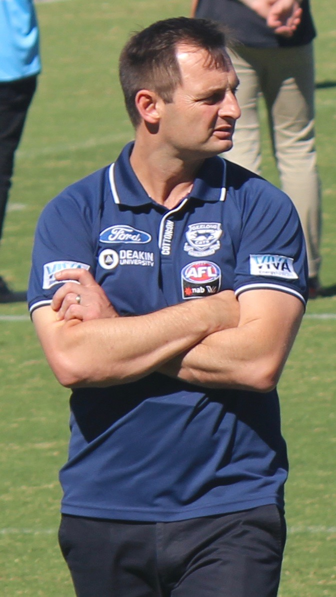 Paul Hood with Geelong during a match against Carlton at Kardinia Park in round 4 of the 2019 AFL Women's season.